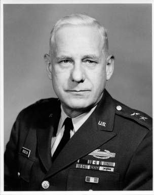 Official portrait of Major General Loren G. Windom, Adjutant General, Ohio National Guard, 1959-1963.